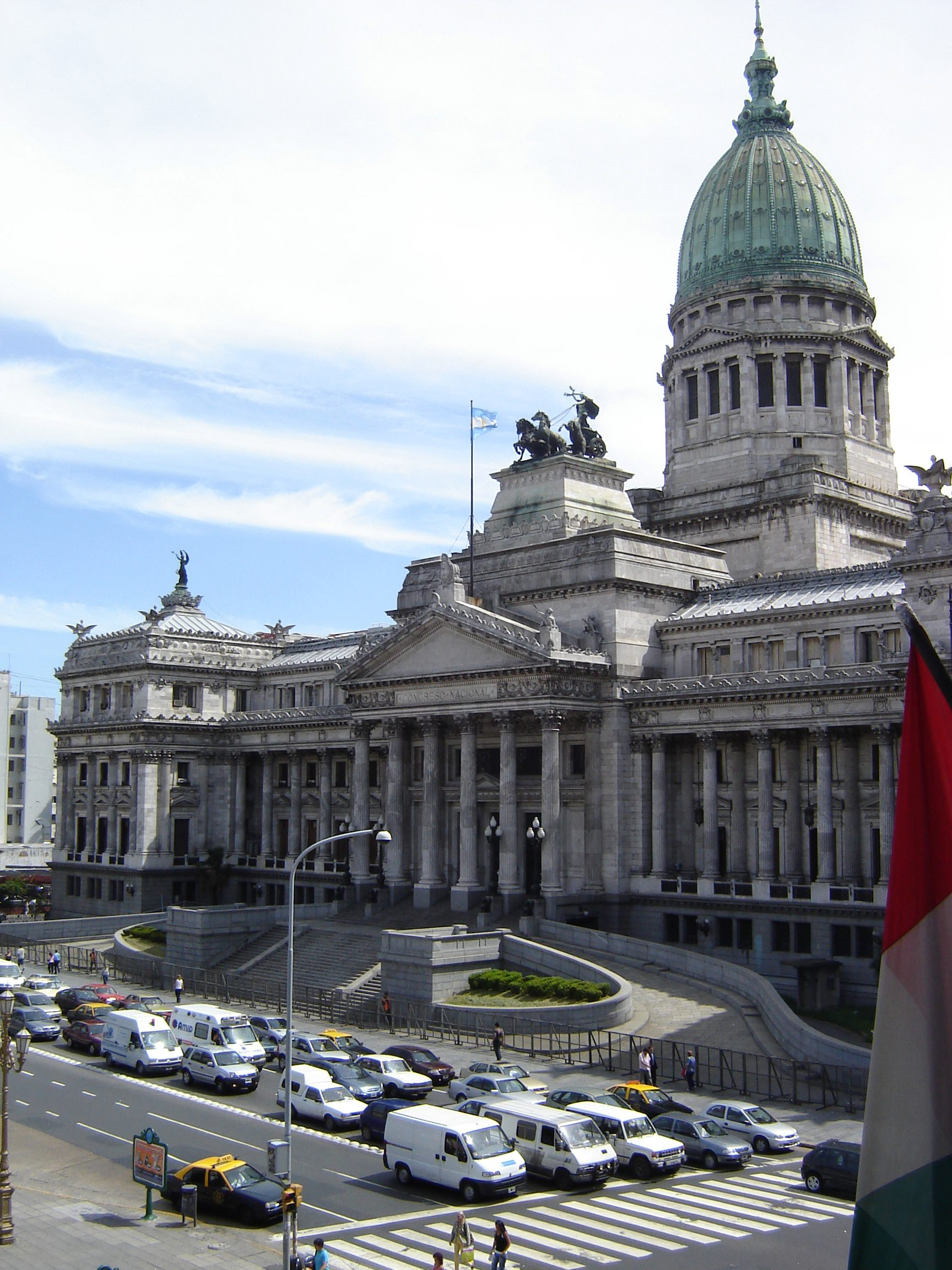 Argentine National Congress, Buenos Aires.